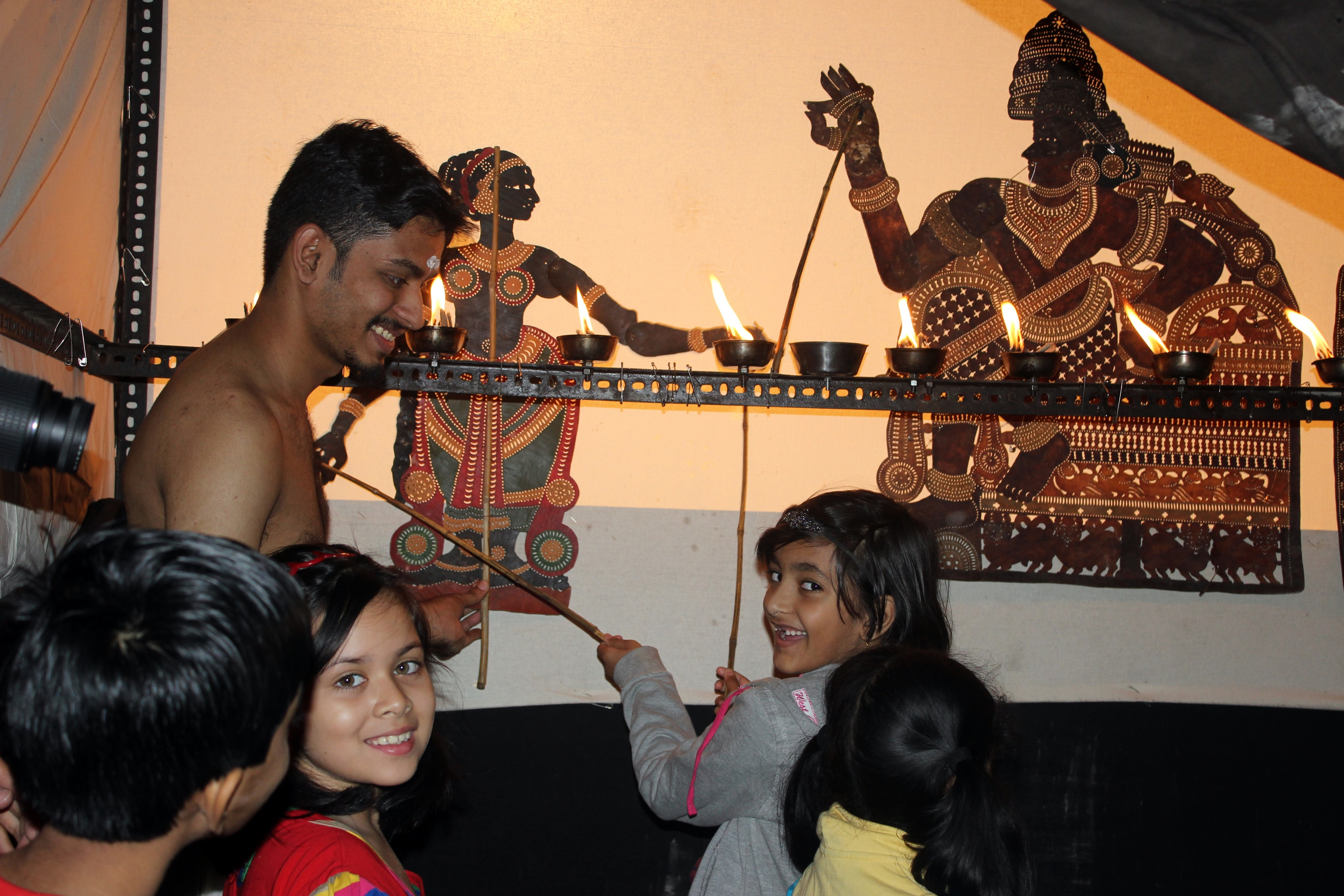 Tholpava koothu shadow puppet demonstration